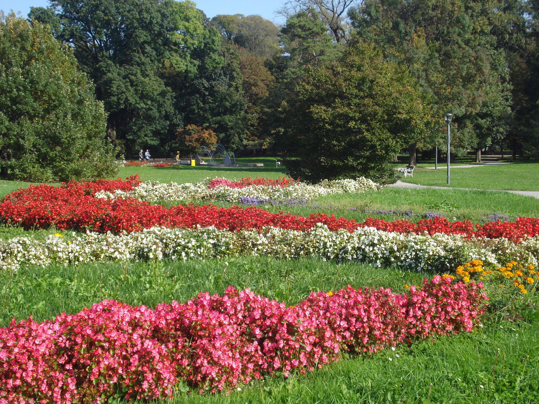 Early autumn in Zrinski park, Čakovec (Croatia) - flowersHrvatski: Rana jesen u Perivoju Zrinskih, Čakovec (Hrvatska) - cvijeće